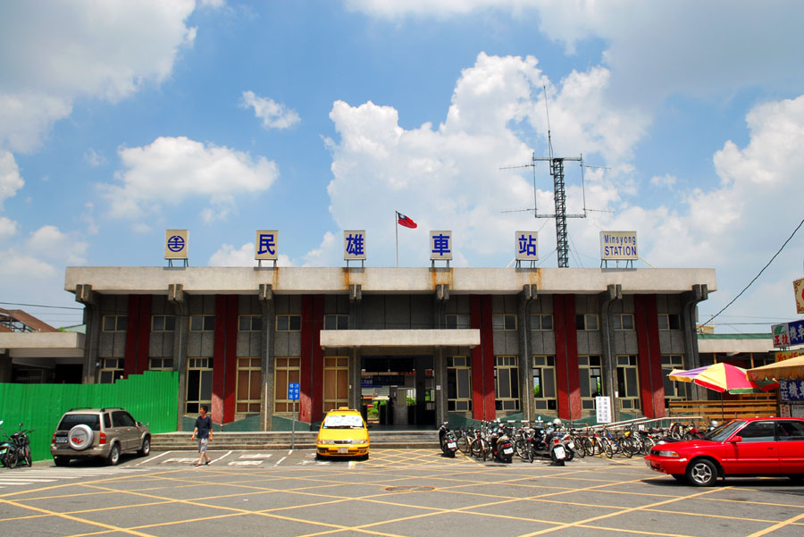 MinSyong Station is a local train station of Taiwan's Western main rail line. It's the main station of MinSyong Township, ChiaYi County.